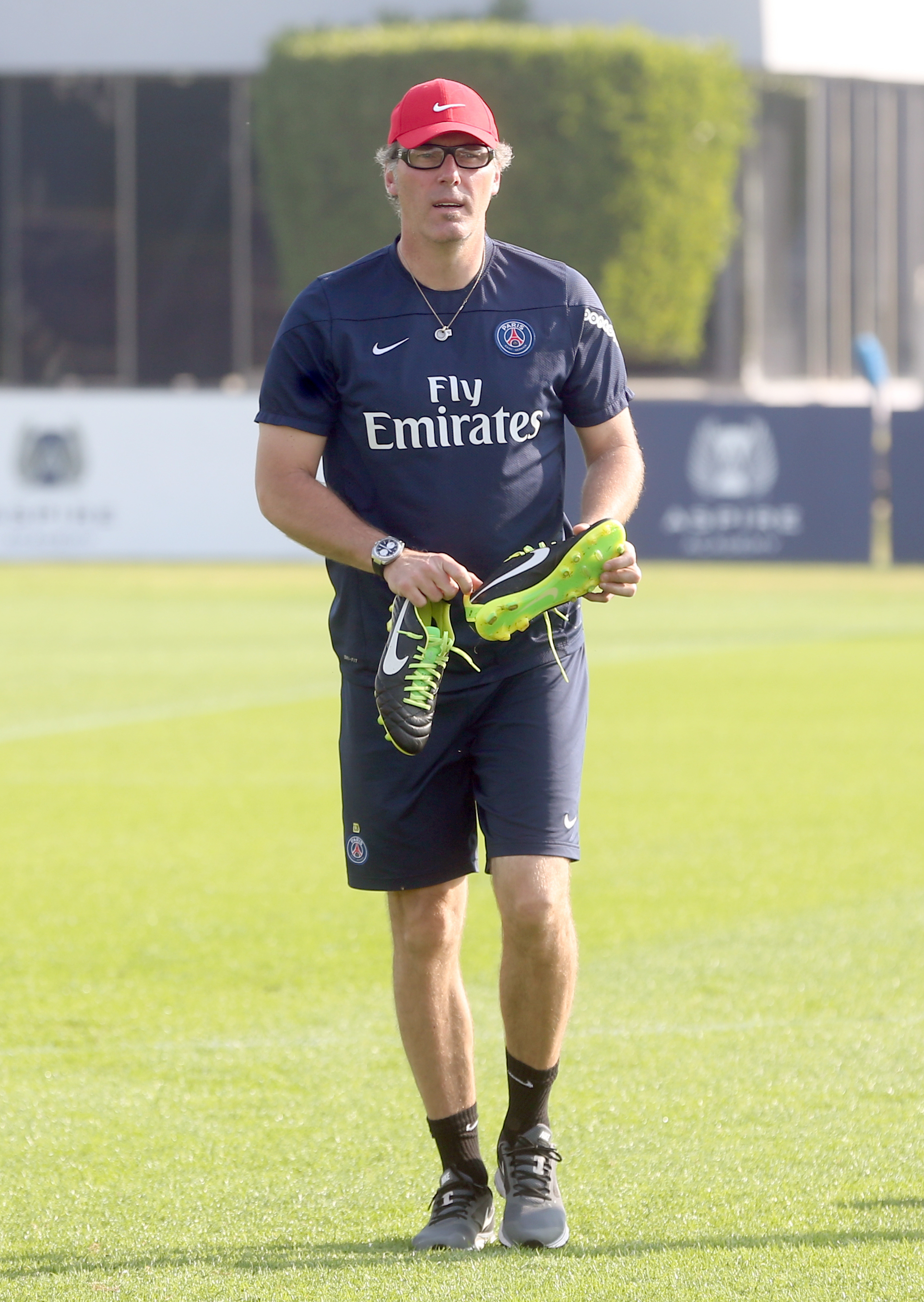 Paris Saint-Germain coach Laurent Blanc during a training session in Doha. Pic by Mohan